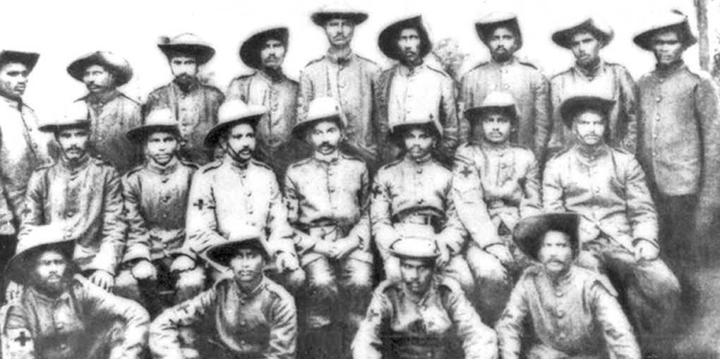 Sgt. Maj. (hon.) Gandhi with the volunteers of the 2nd Indian Stretcher Bearer Corps during the Zulu uprising, in 1906 in South-Africa.